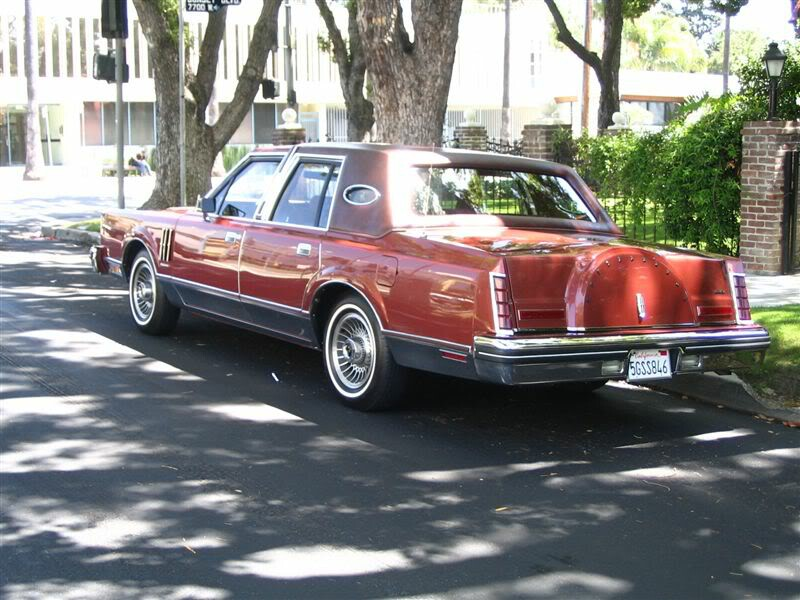 My 1980 Mark VI 4dr